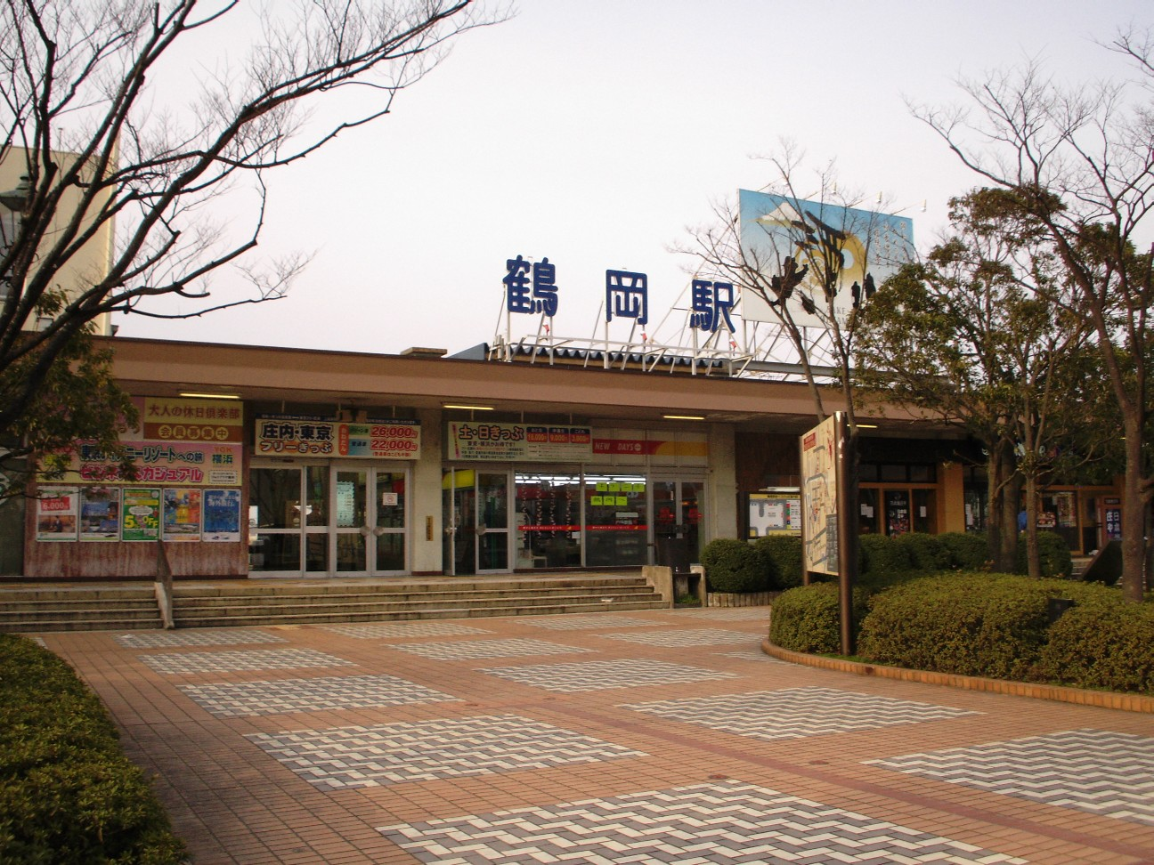 Tsuruoka Station on the Uetsu Main Line in Tsuruoka, Yamagata